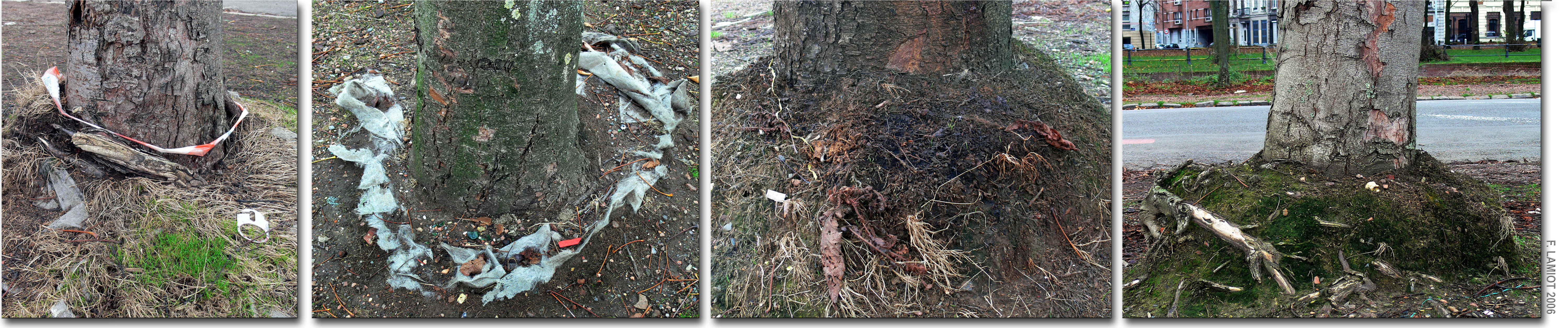 horse-chestnust being killed by a bacteria (Pseudomonas syringae) are often young (20-30 years)and not well planted